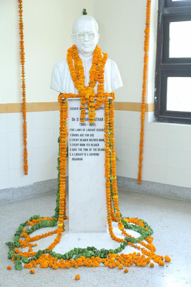 S.R. Ranganathan